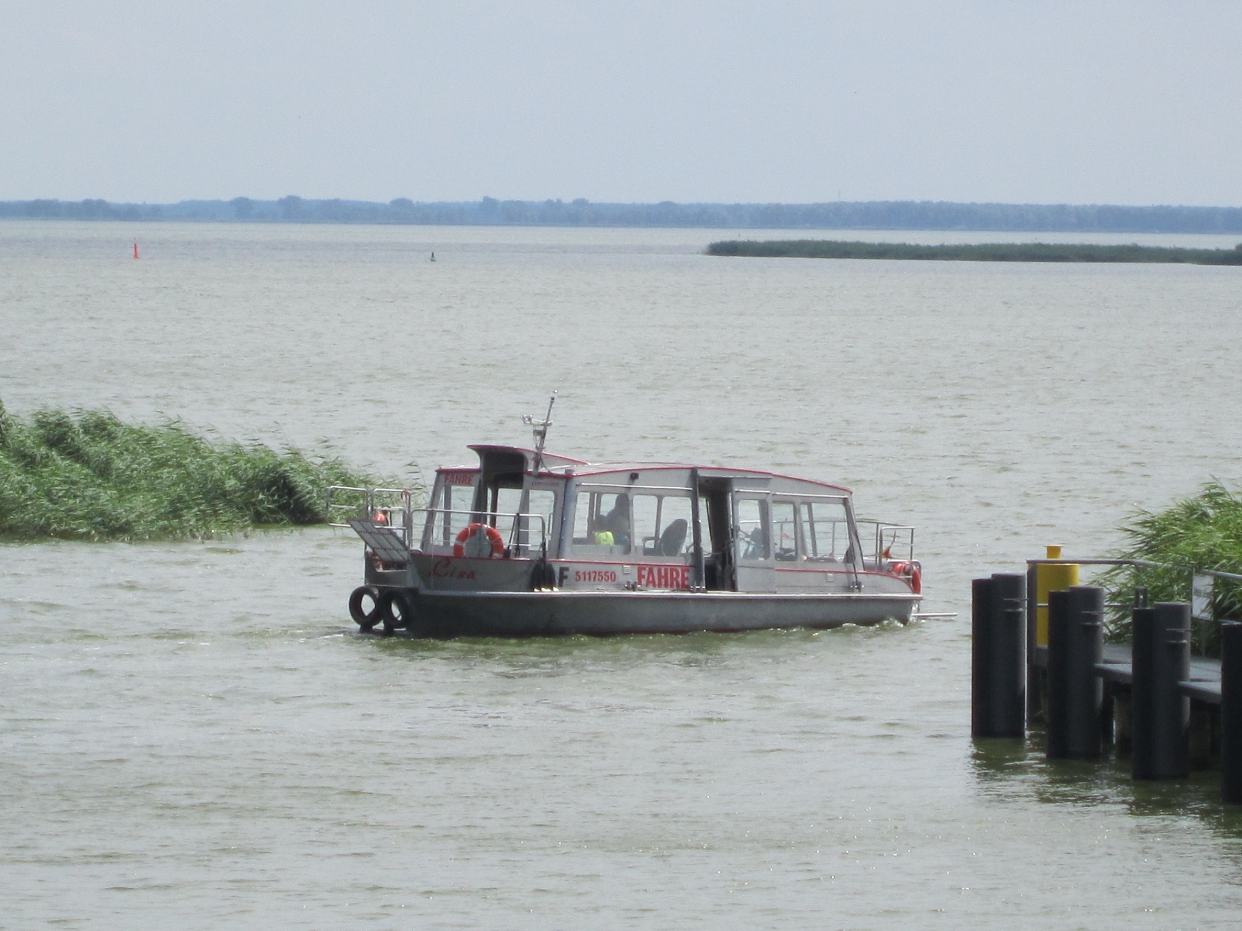 Bicycle ferry across the Peenestrom from Karnin (Usedom) to Kamp